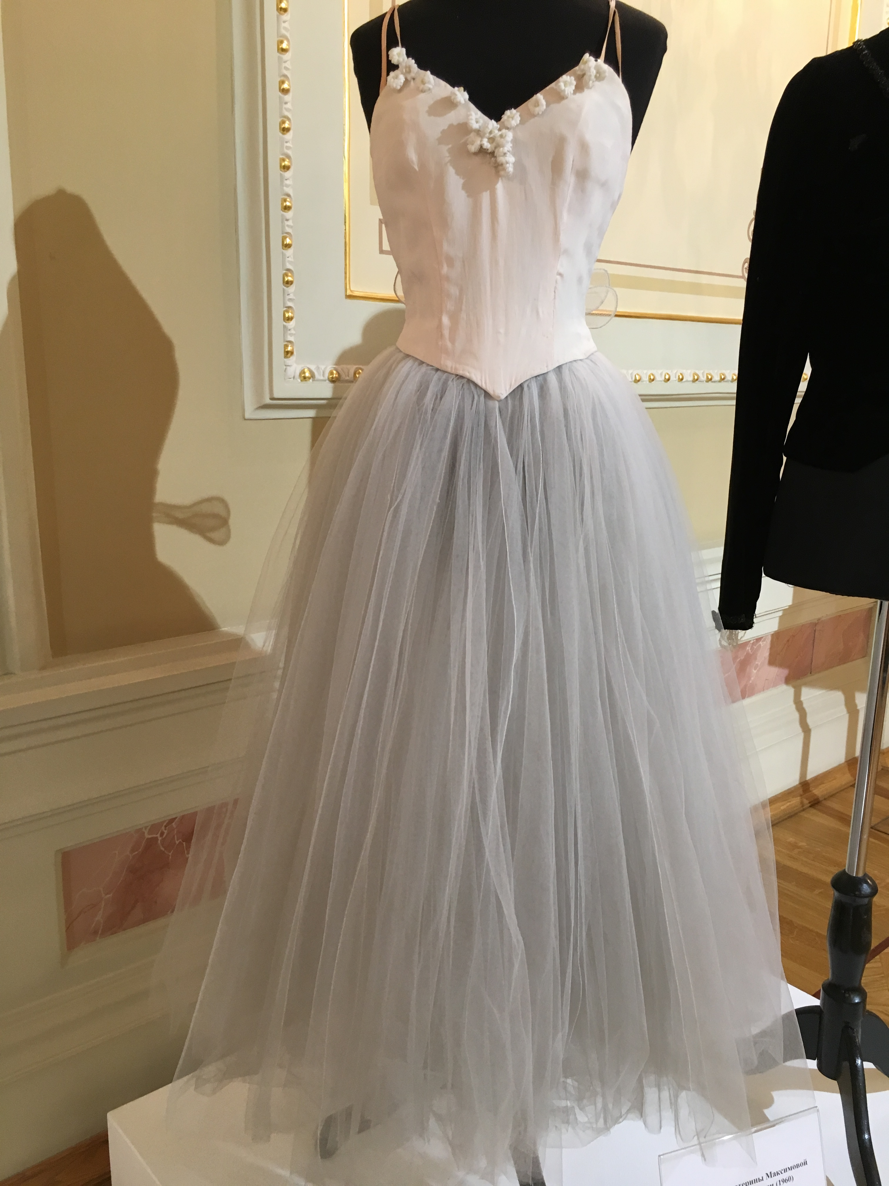 Ekaterina Maksimova's dress for Giselle 2nd act